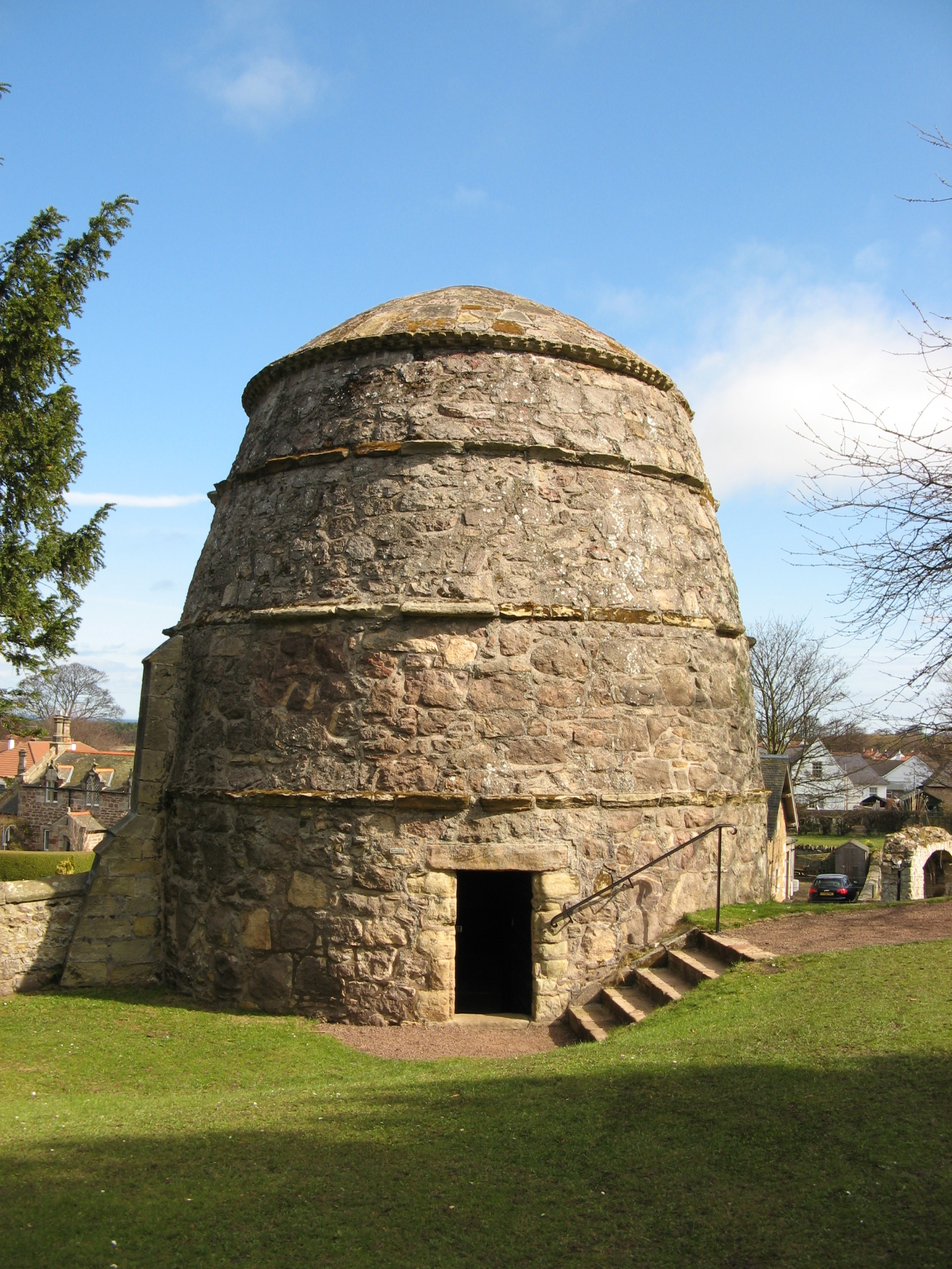 Dirleton Castle, East Lothian, Scotland. 16th century "beehive" type doocot, or pigeon house.